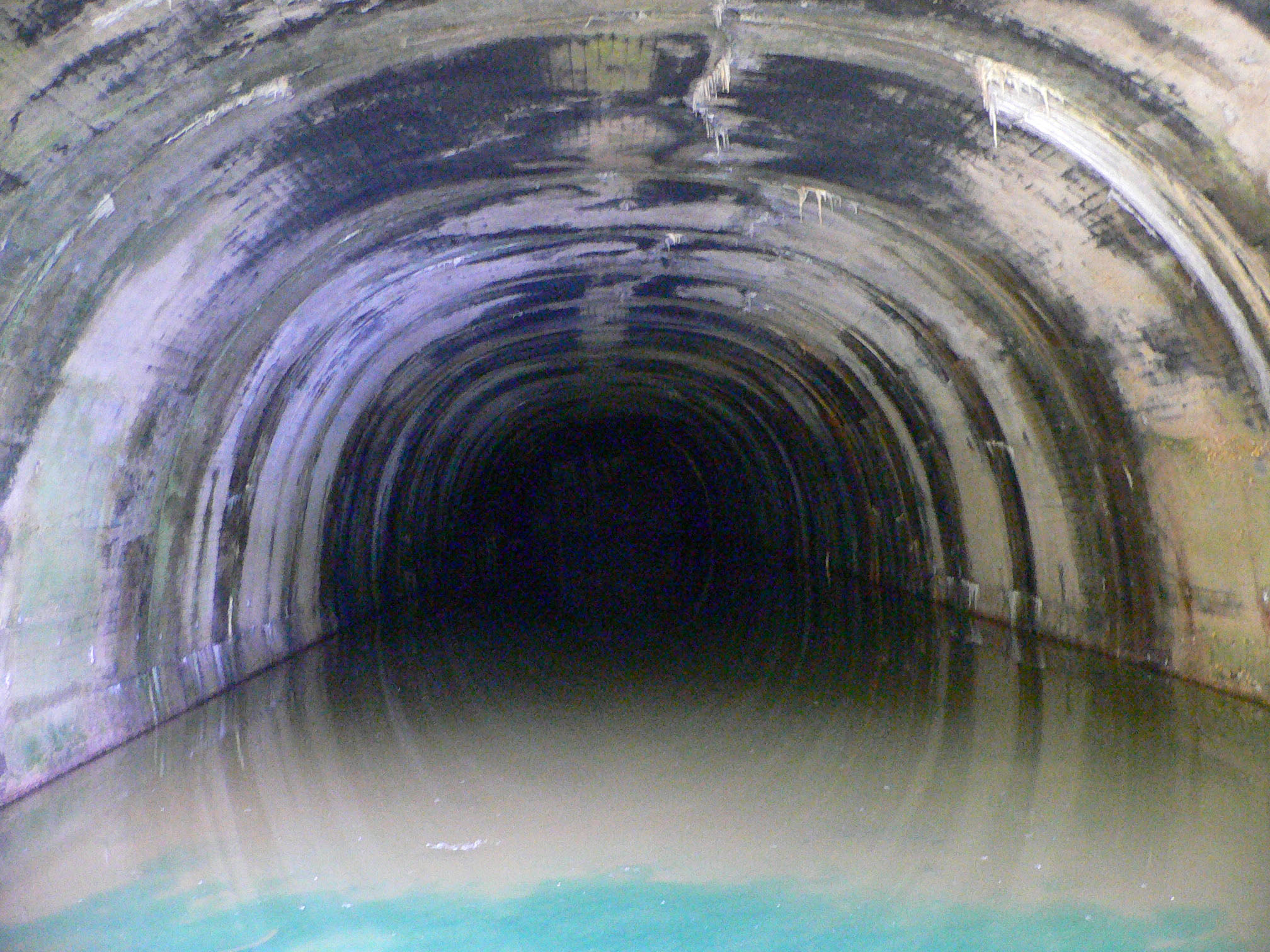 The inside of the eastern entrance to the Church Hill tunnel in Richmond, Virginia, in 2010. The tunnel collapsed in 1925, and is sealed off at this end by the wall barely visible in the distance.